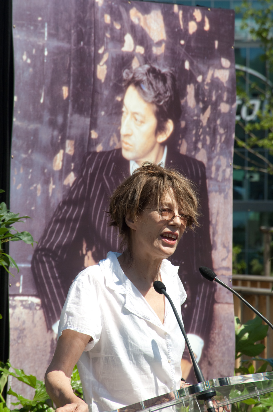 Inauguration of Jardin Serge-Gainsbourg, Paris, 8 July 2010.